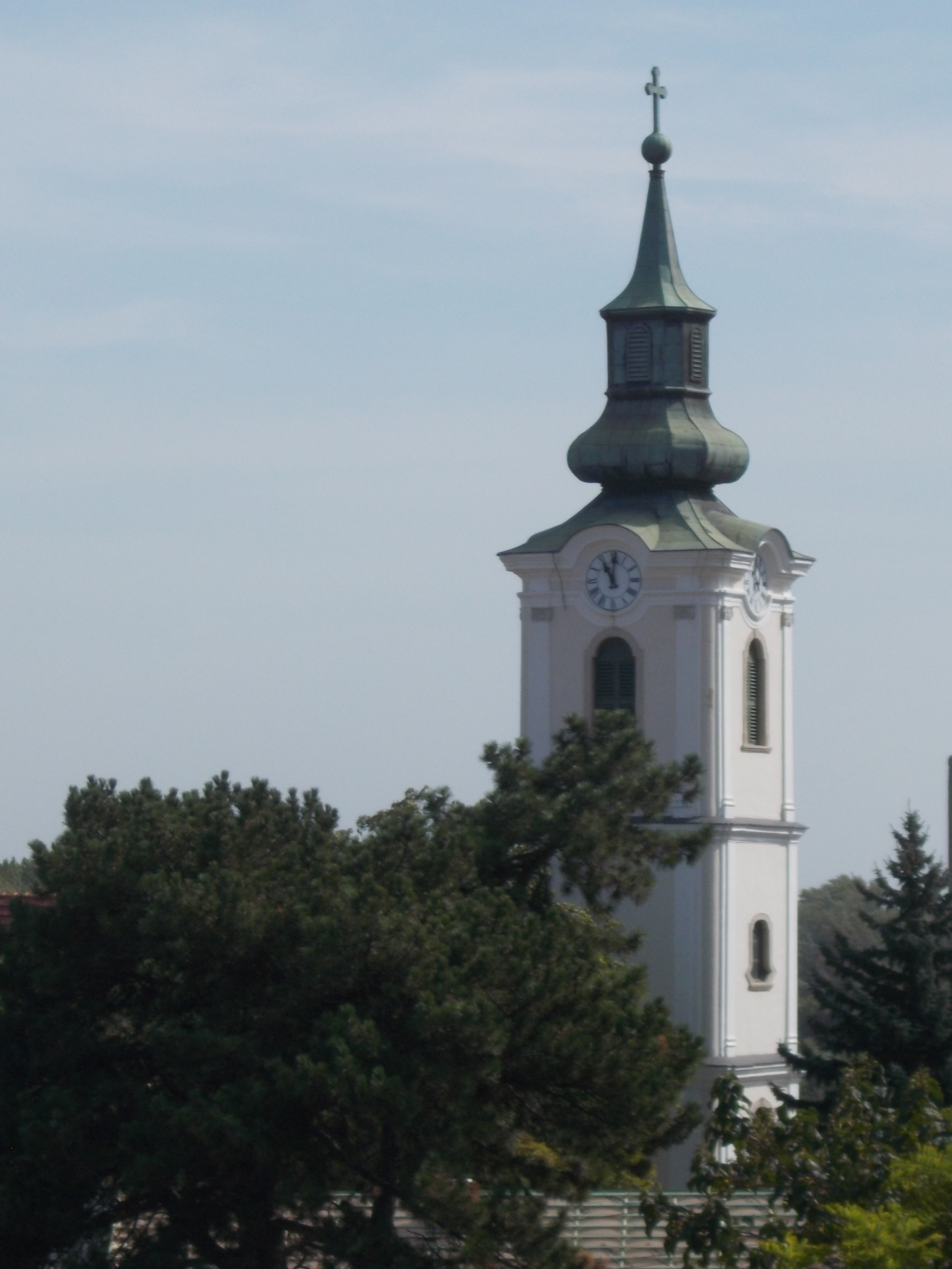 Saint Michael parish church from the Szapáry Mansion. Listed ID 7016. - Kastély Street, Ófalu, Érd, Pest County, Hungary.